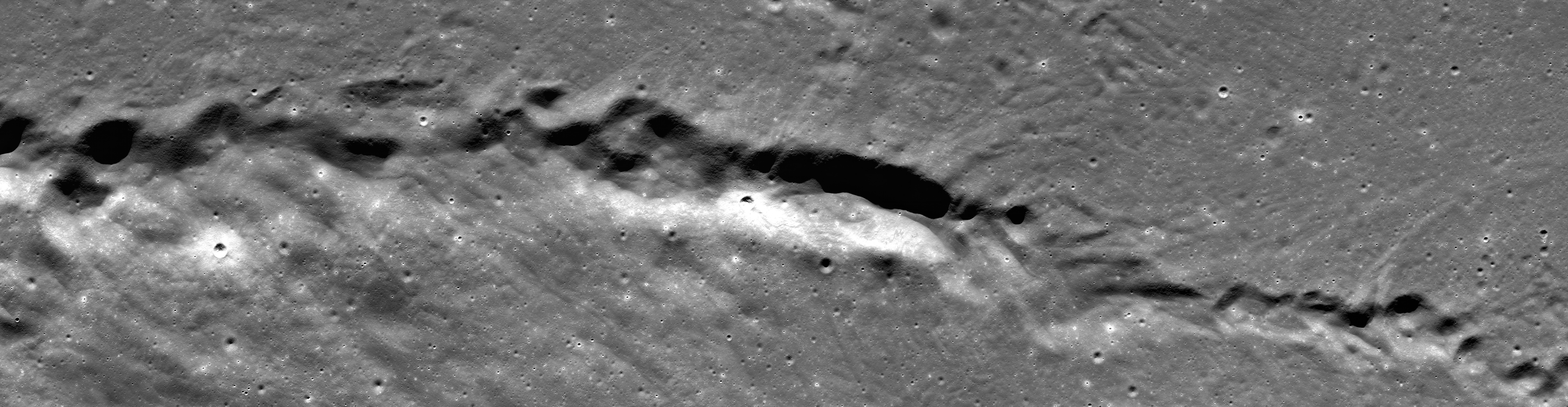 Part of chain of secondary craters of lunar crater Copernicus. The chain is located in southern Mare Imbrium (the depicted part is situated here) and in northern Sinus Aestuum; it's full length is about 250 km. Center of the image is about 180 km from the rim of Copernicus. Image size is 50×13 km; north is at right. Photo by Lunar Reconnaissance Orbiter, made with Narrow Angle Camera 10 July 2012 from altitude 128 km. Sun elevation is 21°.